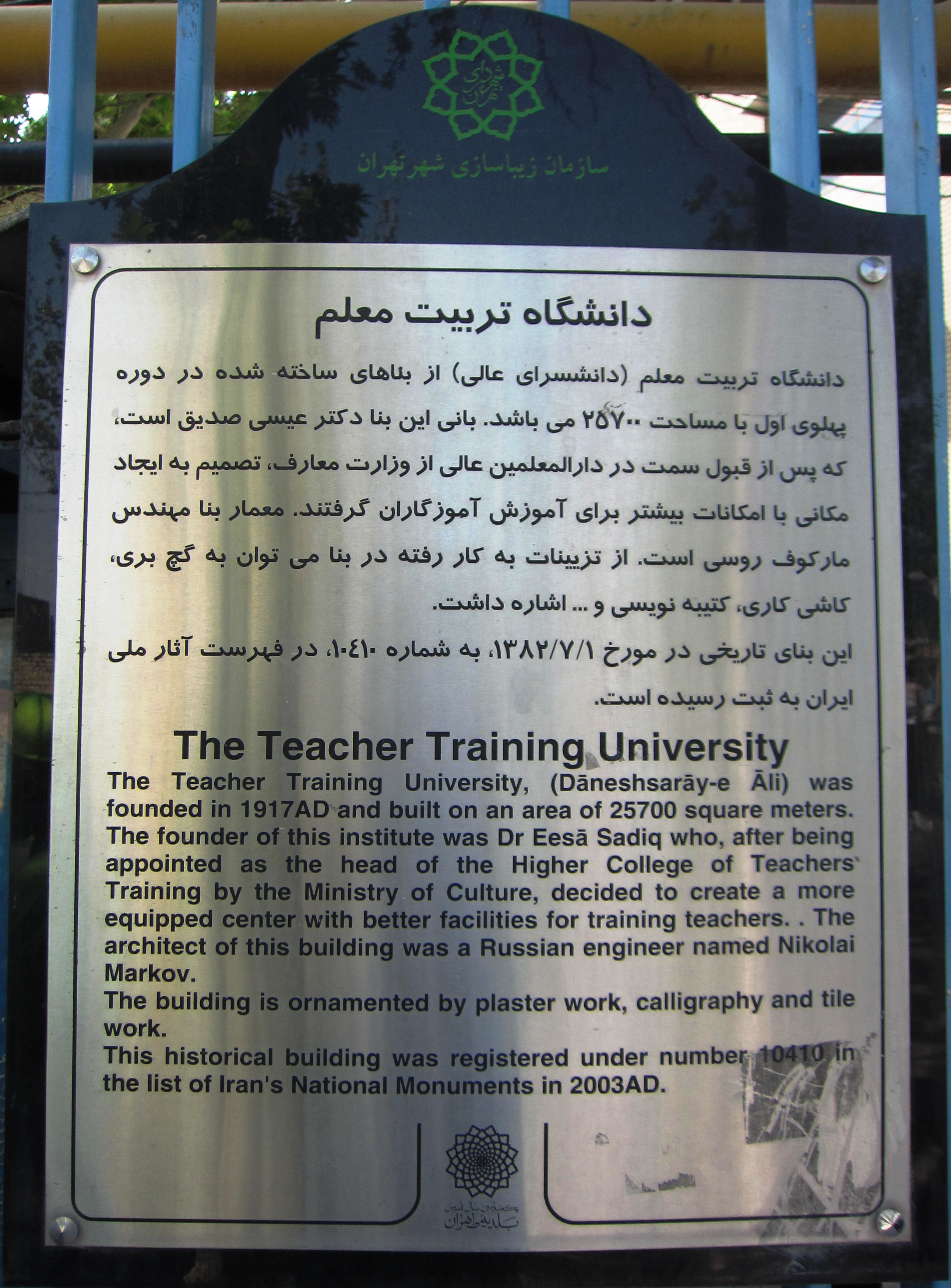 A brief history of the old building of Kharazmi University (former Teacher Training) written on the gate of the university in Tehran.